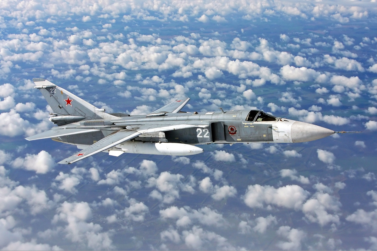 A Sukhoi Su-24M of the Russian Air Force inflight over Russia